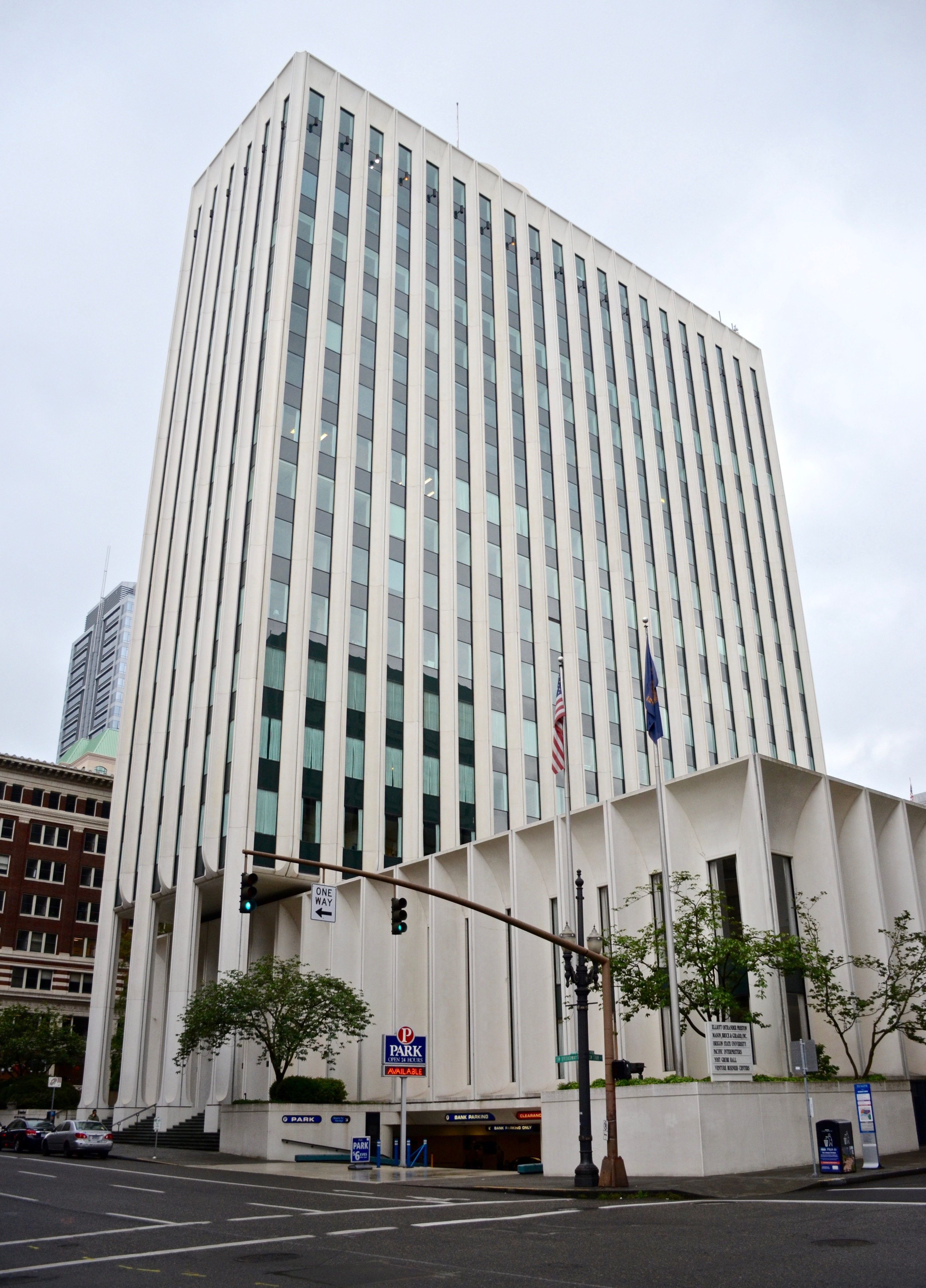 The Union Bank Tower in Portland, Oregon (built as the [new] Bank of California building, in 1969), from the northeast – from across the intersection of Broadway and Stark.